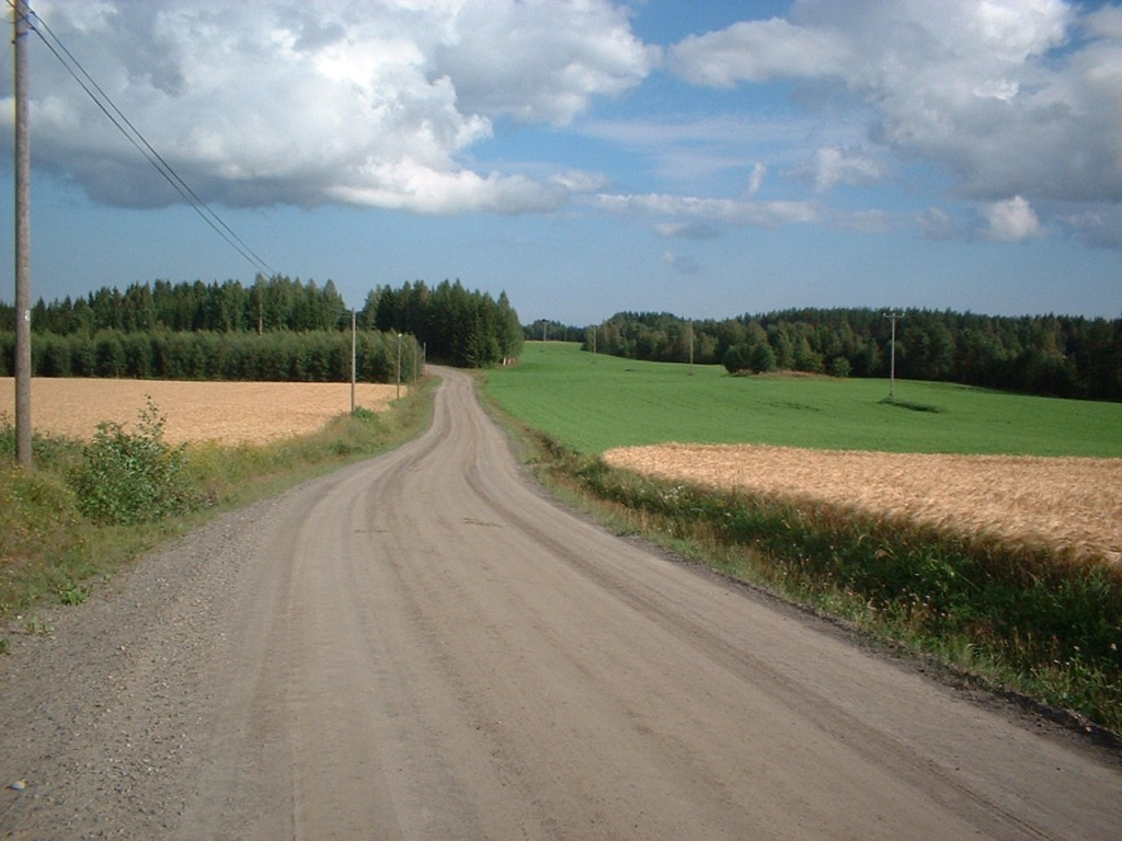 Scenery near Järventaus, Tohmajärvi municipality, Finland